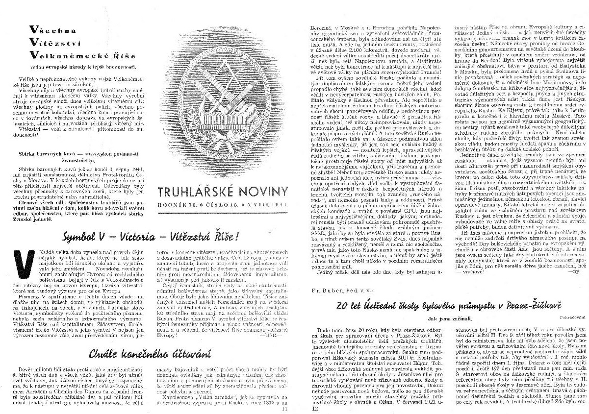 Example of joinery newspapers from time Protectorate of Bohemia and Moravia